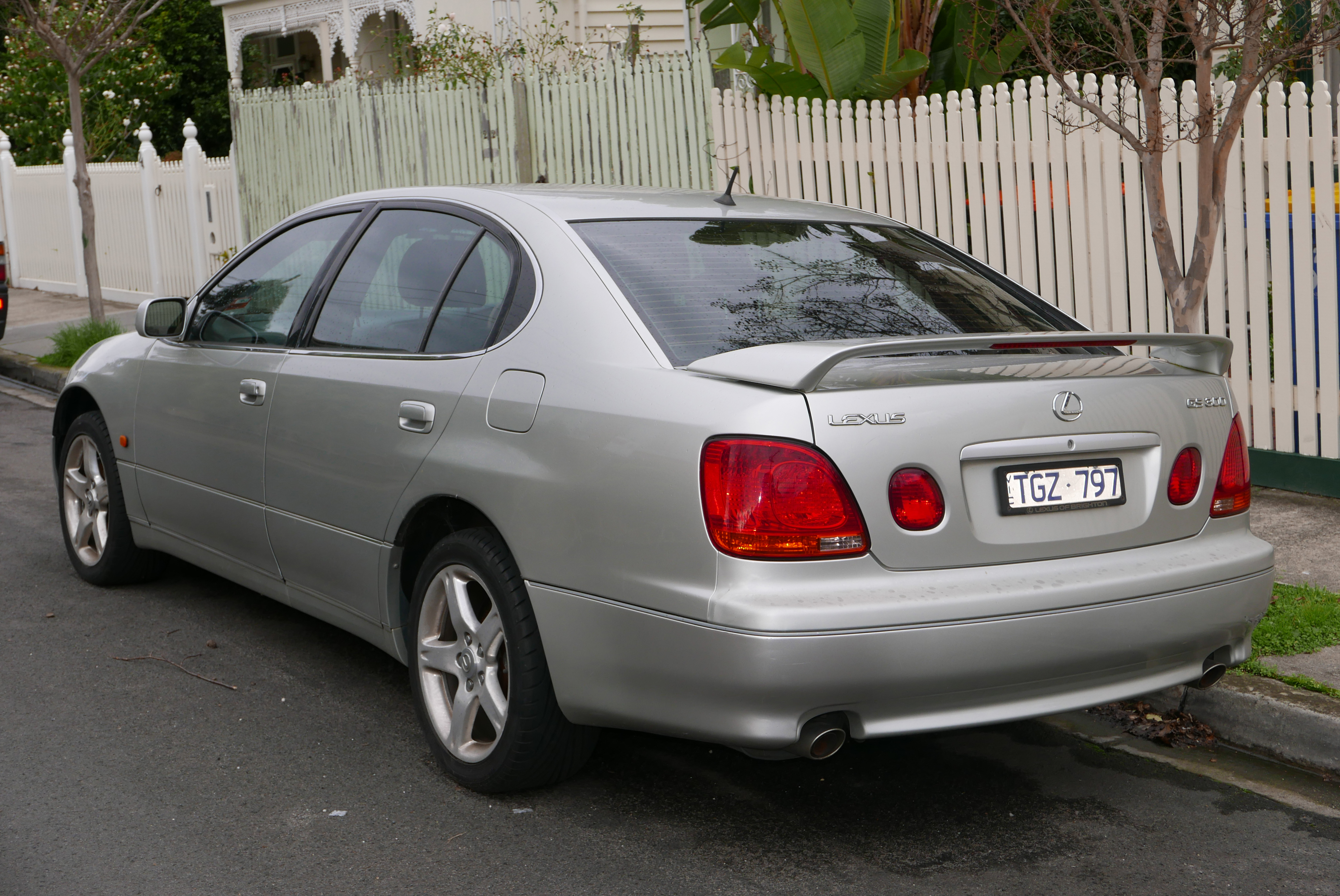 2002 Lexus GS 300 (JZS160R MY02) sedan. Photographed in Hawthorn, Victoria, Australia. Vehicle registration enquiry resultsJurisdictionVictoriaRegistrationTGZ797Chassis codeJT753JSG000163421Engine code2JZ0980042Compliance date2002-03Year of manufacture2002